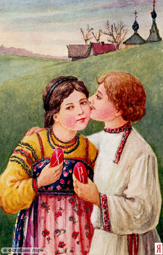 Old Russian Easter Postcard